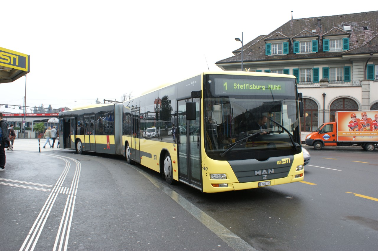 STI bus 140 at Thun railway station